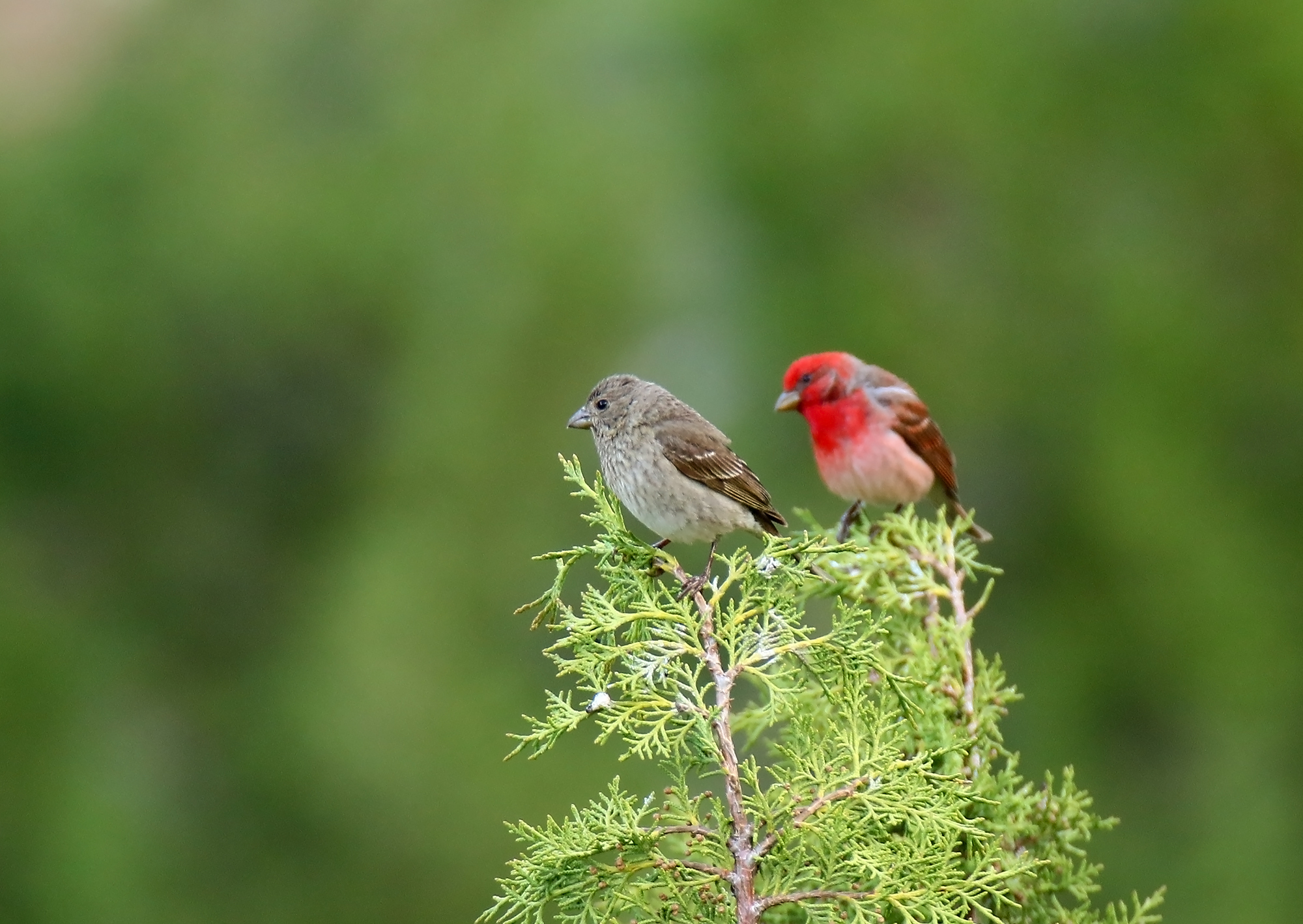 Common Rosefinch (Carpodacus erythrinus) captured at Shispare Ther, Hunza, Gilgit-Baltistan, Pakistan with Canon EOS 7D Mark II